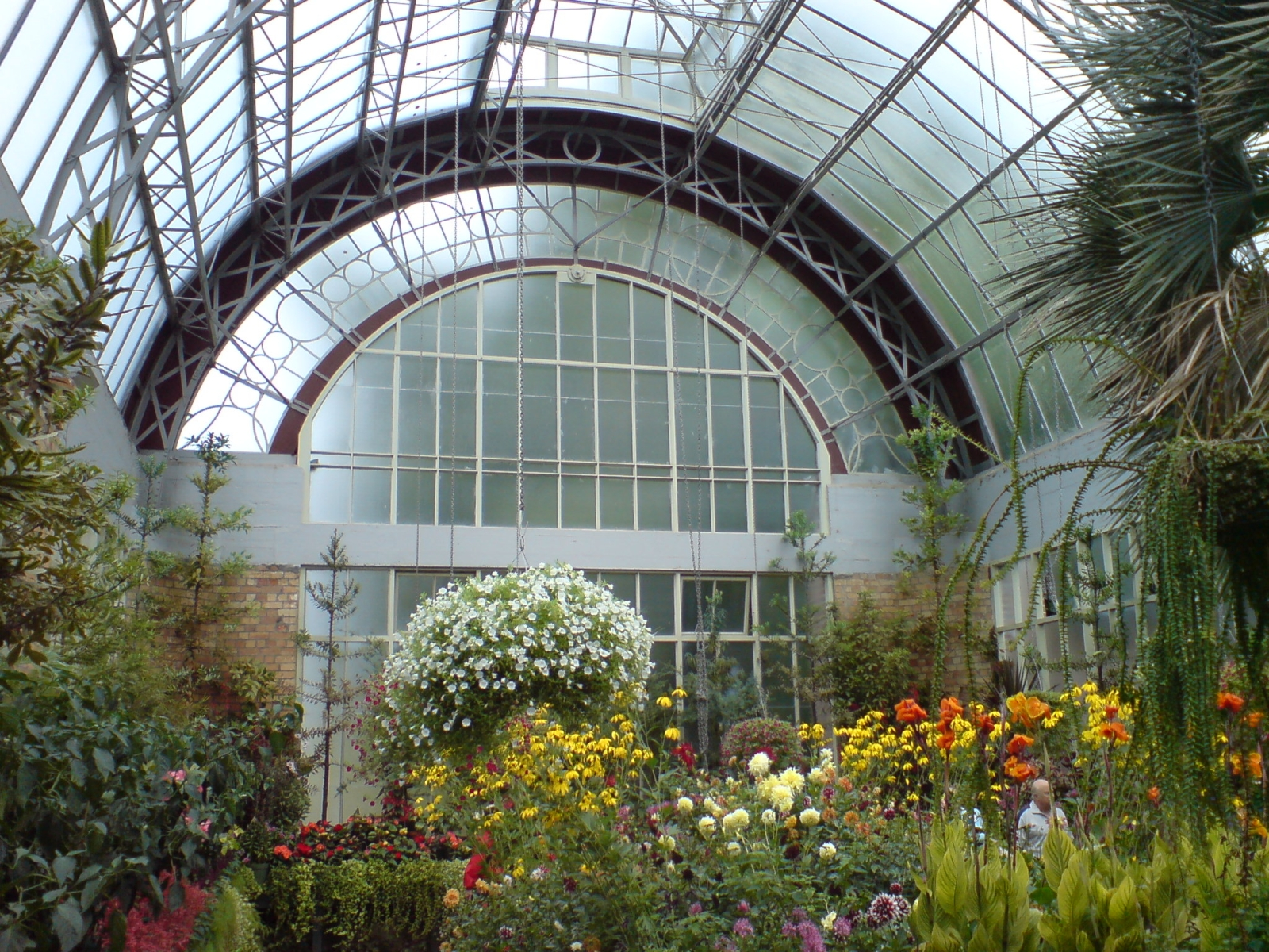 One of the two (not sure which one?) houses of the Auckland Domain Winter Gardens in Auckland, New Zealand.